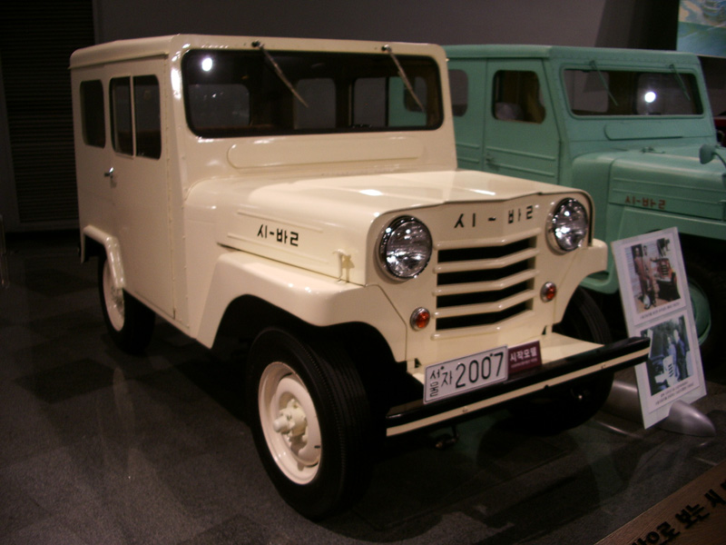 The humble beginnings of South Korea's automotive industry are showcased here. Three brothers, in 1955, decided to build automobiles, founding Gukje Motors. They used the plentiful leftover American Jeep chassis from the war, equipped them with 2.2-liter imitation American engines and rebuilt 3-speed American transmissions, and added a hand-built body. The result was the Shibal (beginning#. Initial sales were slow, but after receiving an industrial award from President Syngman Rhee, sales took off. Sales remained strong until 1962, when the Saenara #a licensed copy of Datsun Bluebird) went into production; Gukje Motors folded in 1964 without ever building a successor model. Thirsty and expensive, but rugged and well-suited to the primitive South Korean roads of the day, the Shibal often served as a taxicab. So much so, that most people who do remember the Shibal usually refer to it as the Shibal Taxi. Although over 3,000 were built, no Shibal are in existence today. This is a replica, representing the first Shibal built, built by Samsung Transportation Museum based on original engineering blueprints and authentic hand-crafting techniques.